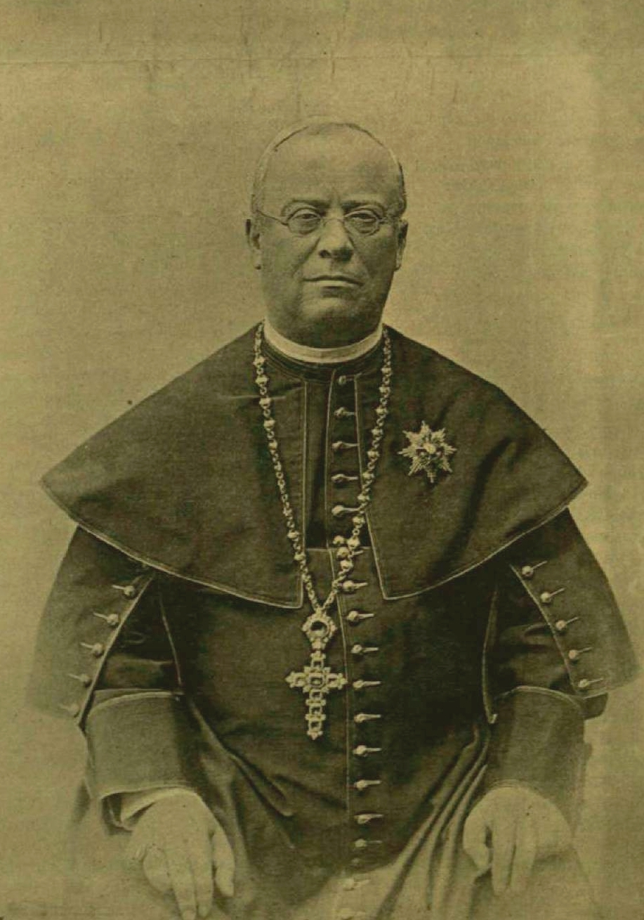 Nándor Dulánszky